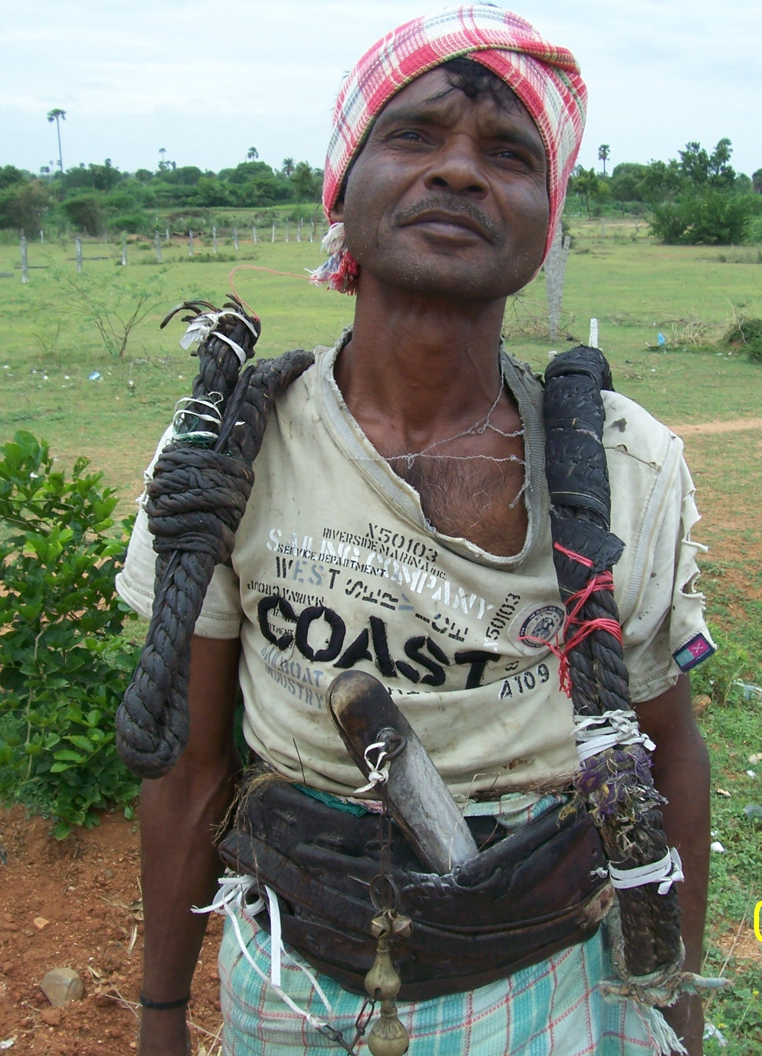 Toddy drawer